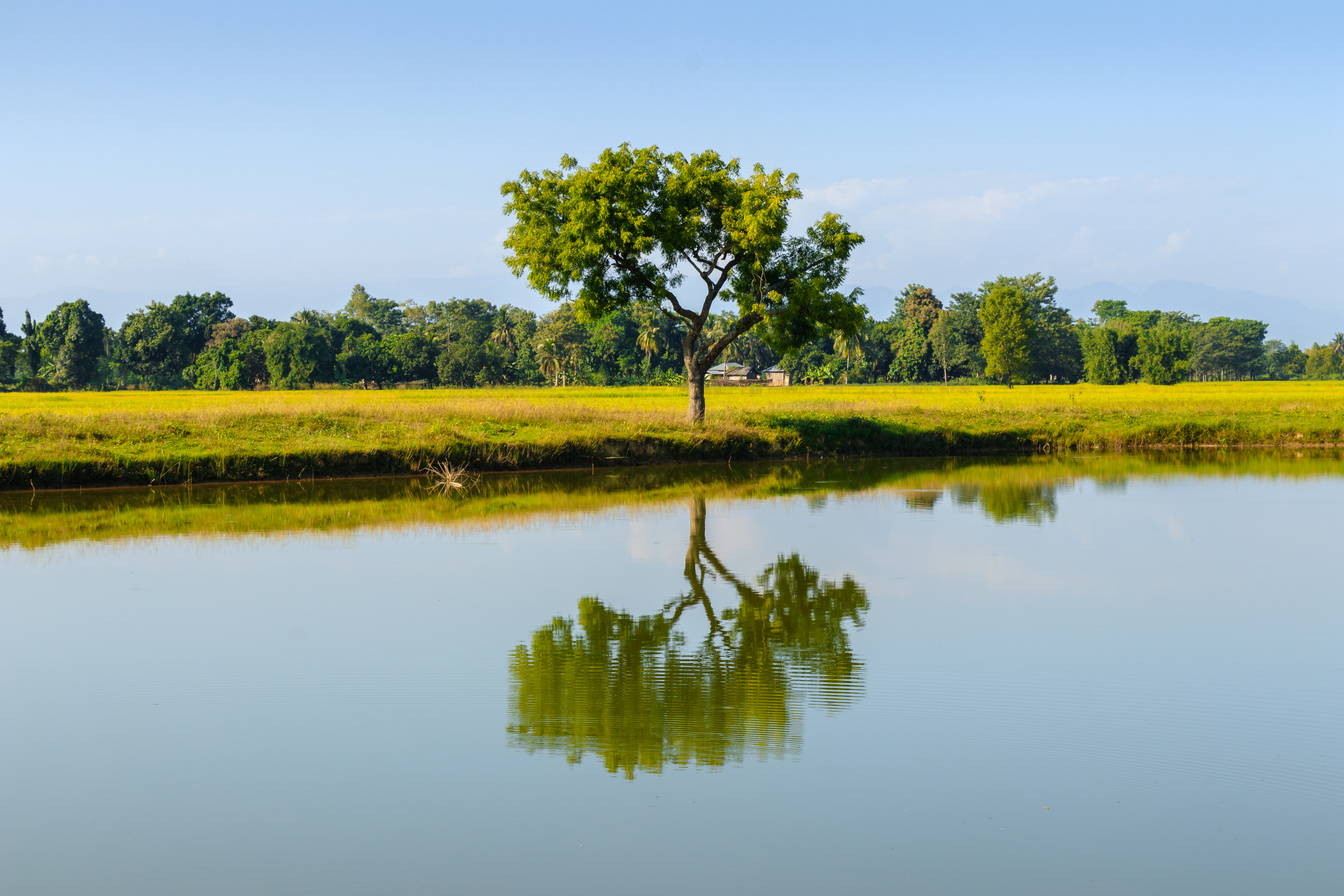 Reflection of Bakain tree (Melia azedarach) near pound of Kuruwapari Chaudharitol- Inaruwa, Kosi Municipality. Inaruwa इनरुवा is the headquarters of Sunsari District in Nepal. It merged with several VDCs, including Babiya, Jalpapur, and Madhesa. It lies on the Mahendra Highway, and is 25km Northeast away from Koshi Barrage and 18.6km from Koshi Tappu Wildlife Reserve.